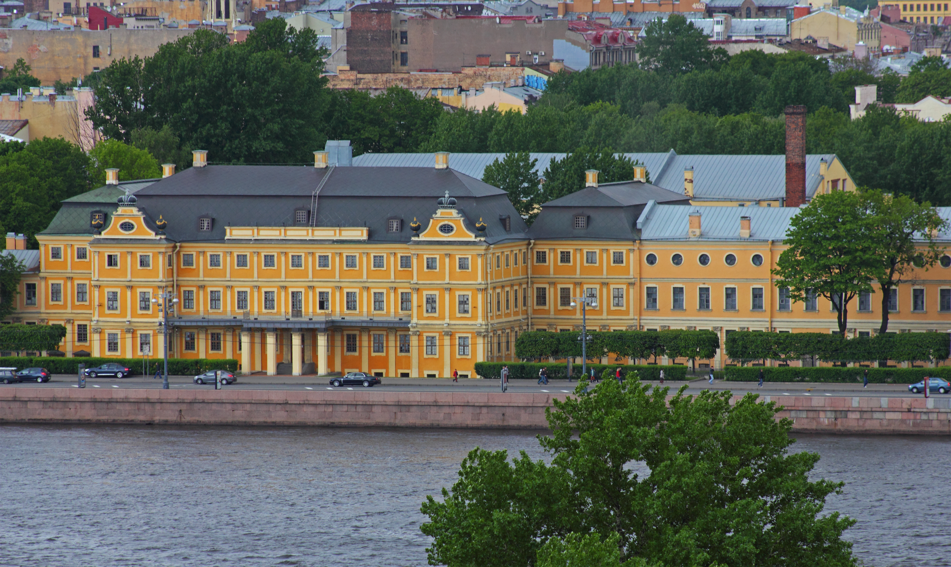 Saint Petersburg, Russia. The ensemble of the University Embankment, as seen from the Cathedral of St. Isaac.